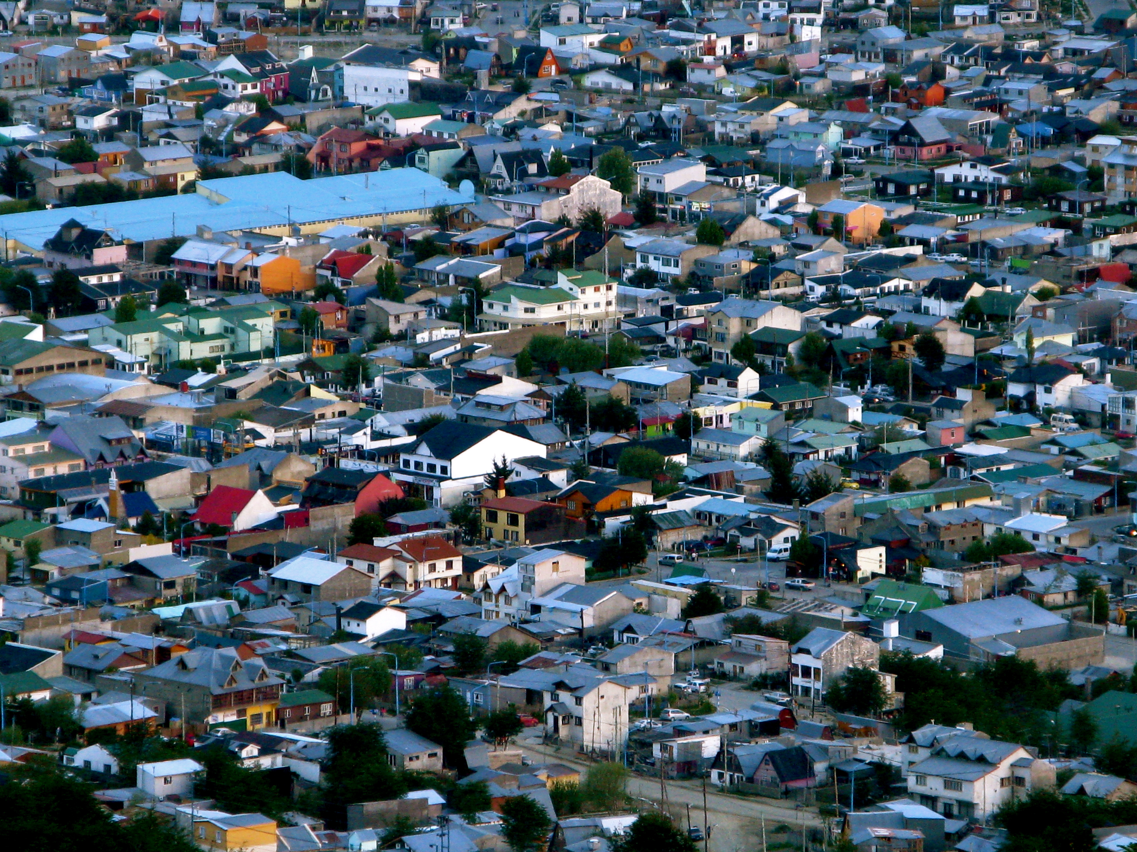 Ushuaia, view and zoom of the city, Tierra del Fuego, Patagonia